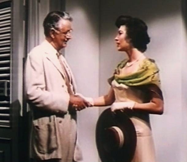 Leonard Carey & Ava Gardner in The Snows of Kilimanjaro - cropped screenshot